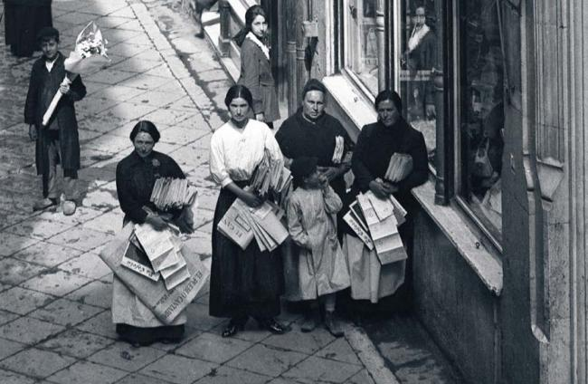 "El Cantábrico" and "El Pueblo Cántabro" newspaper sellers in Santander (Cantabria), beginning of the 20th century. Author unknown, picture from the Josep Thomas i Bigas (died 1910) collection.